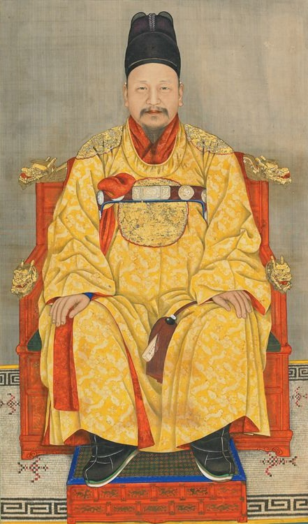 Portrait of Emperor Gojong of Korea